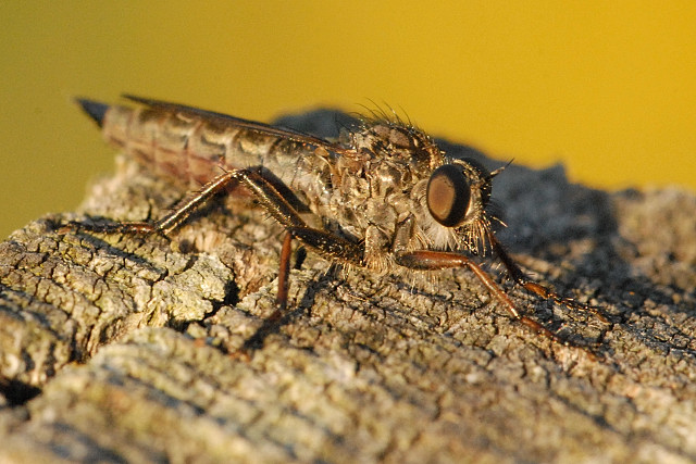 Machimus rusticus from Commanster, Belgian High Ardennes .